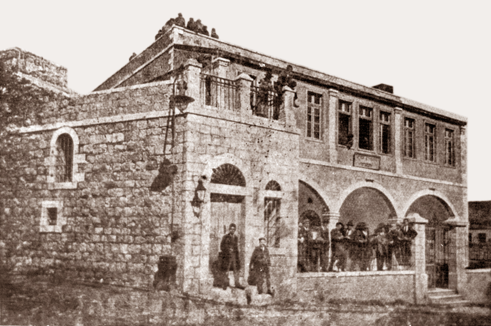 Lifshitz College of Education - original building